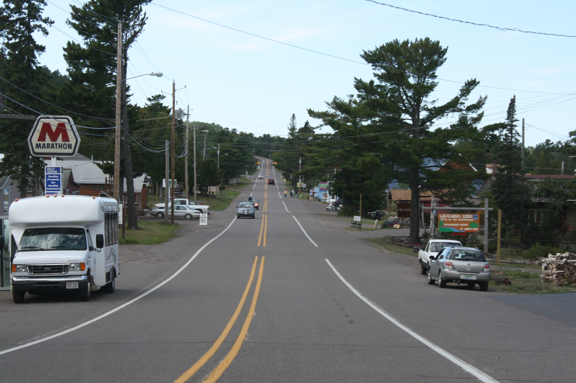 Looking west in downtown Copper Harbor, Michigan on U.S. Route 41.